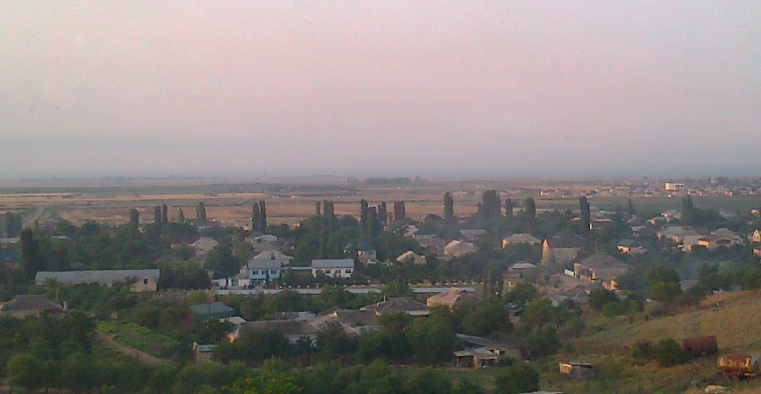 Chinar and landscape of the Derbentsky District Located in the Republic of Dagestan, in the North Caucasus region of southwestern Russia.